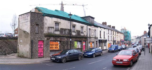 "The First and Last" Pub, John Street, Omagh. So called because it was the first and last public house before you left or entered the town from the railway station, depending on which way you looked at it - now derelict. There was one more business to the left of the property which has been demolished and that was Dan McCaffrey's garage.